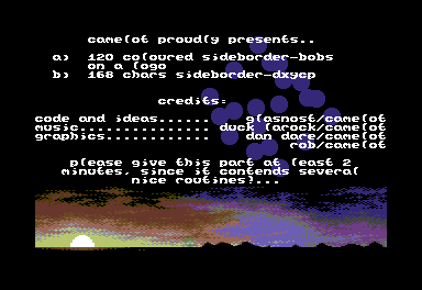 Screen shot from the C64 Demo "Camel Park".